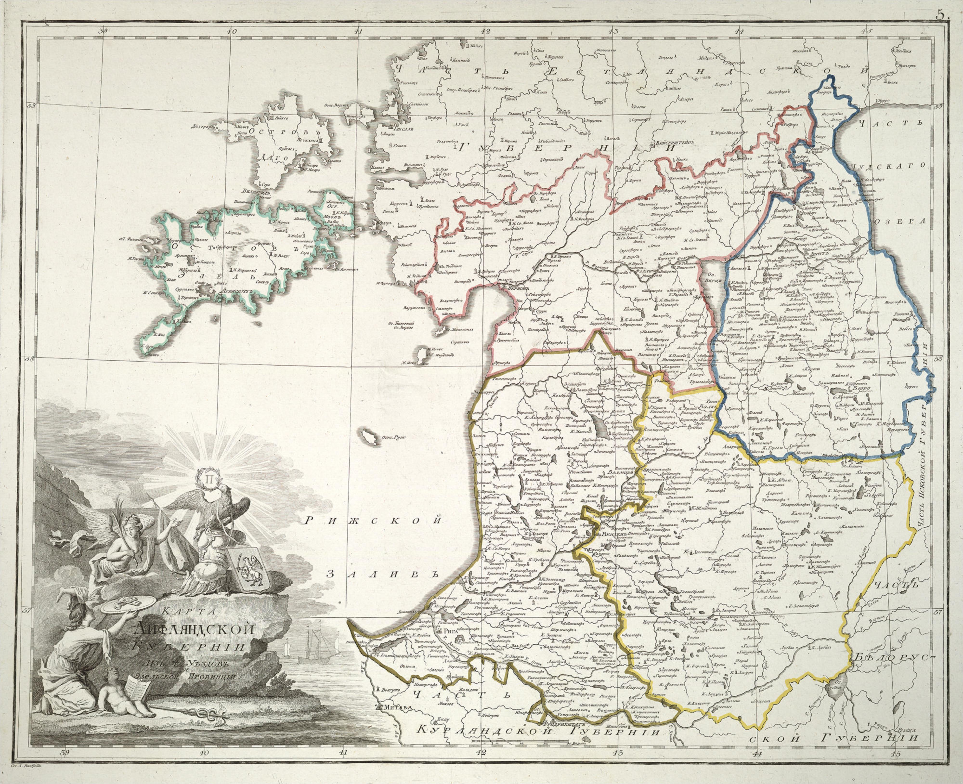 Atlas of Russian Empire. 1800 year. List 5. Liflyandskaya Province from 4 uyezds and Ezelskaya province